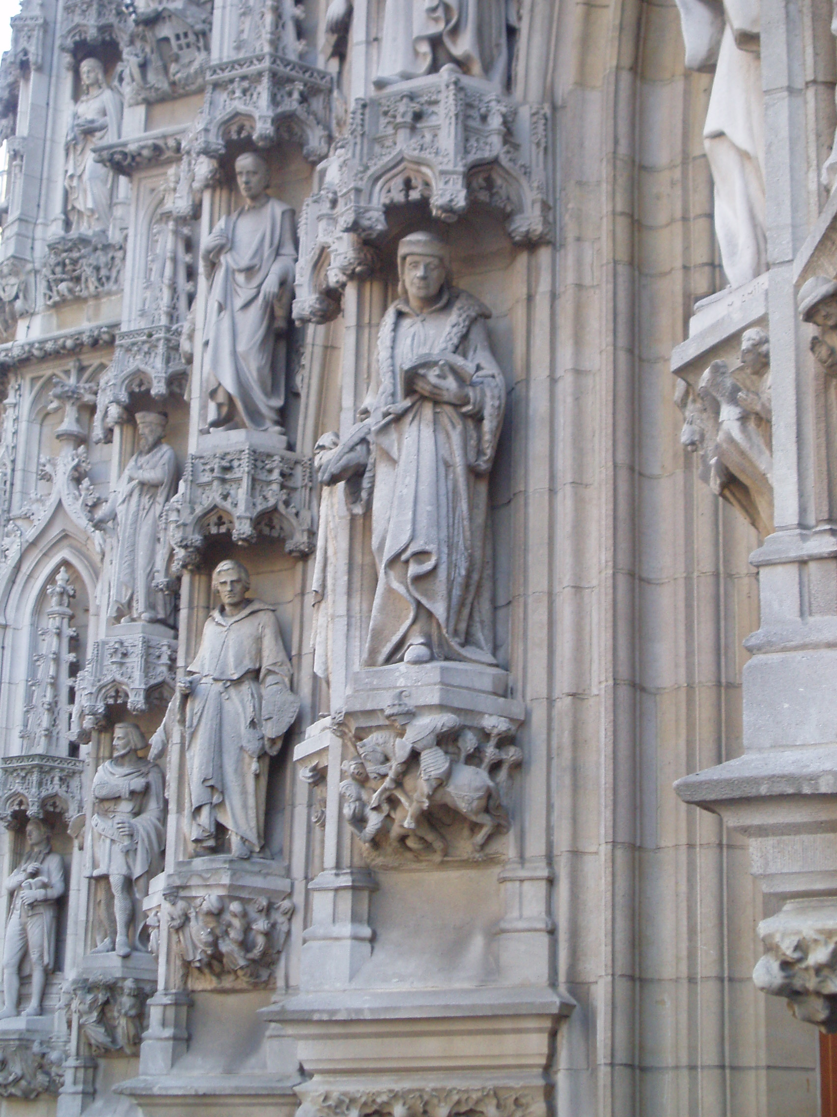 Erasmus on town hall Leuven